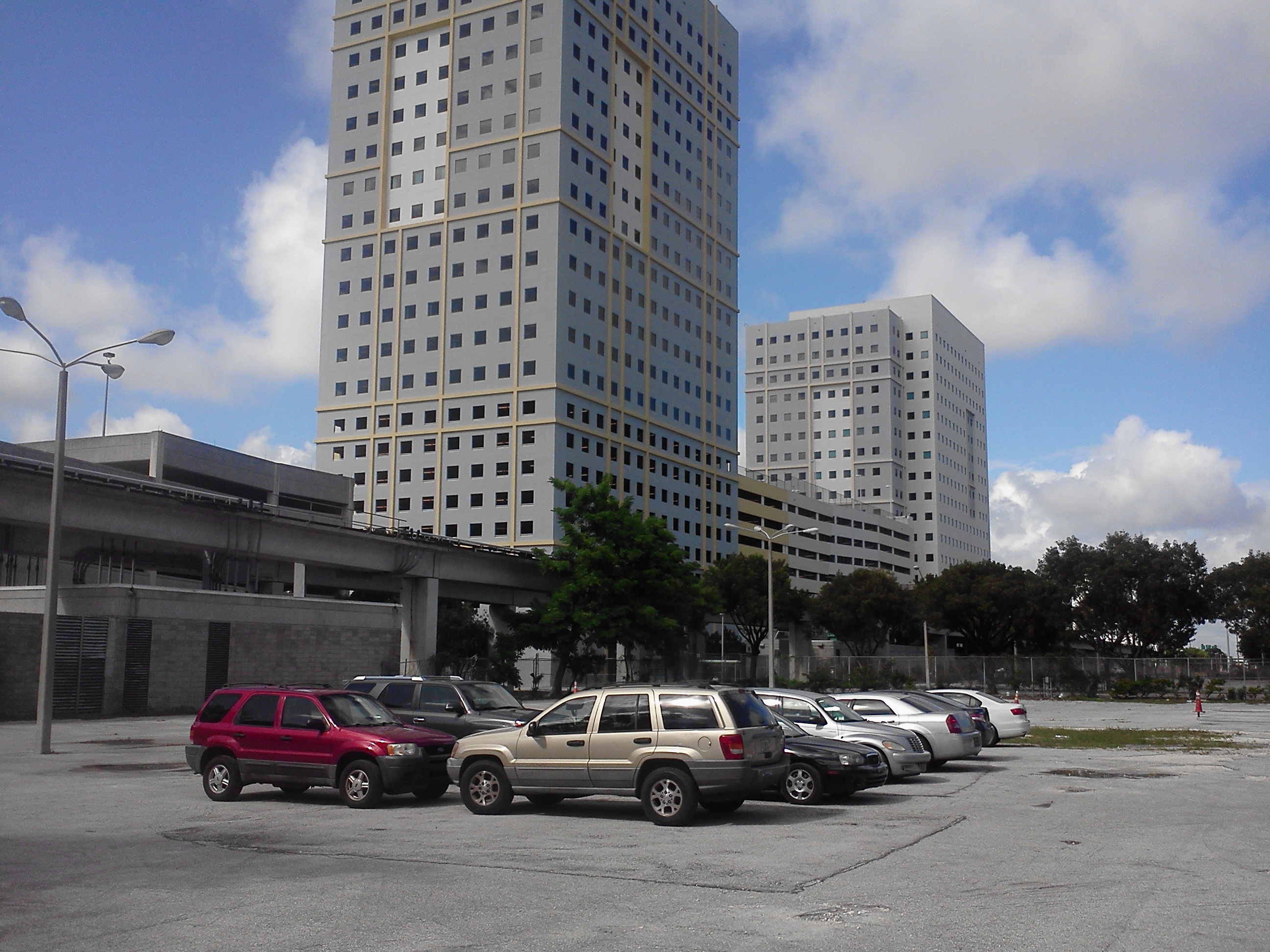 Headquarters of MDT at 701 NW 1 court, Overtown Metrorail station.